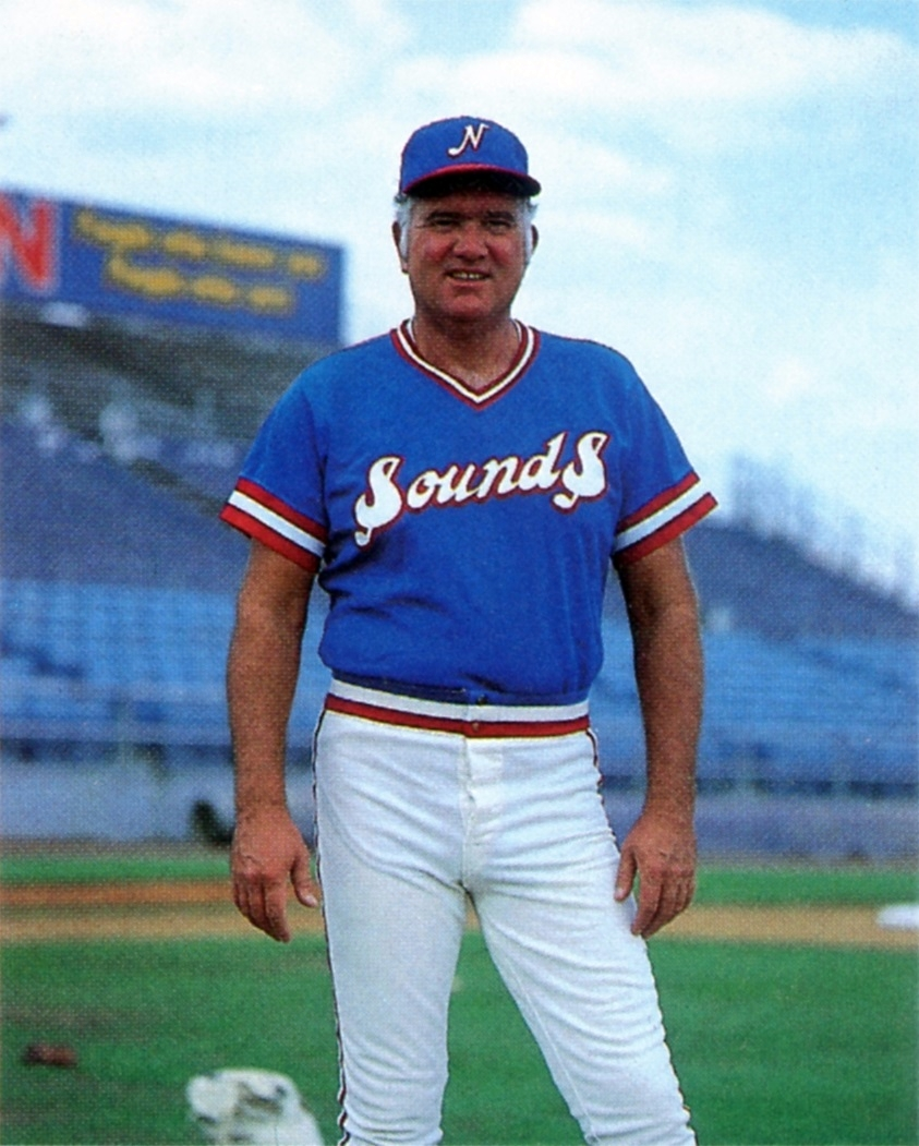 Hitting coach Jim Saul of the 1983 Nashville Sounds Minor League Baseball team of the Southern League